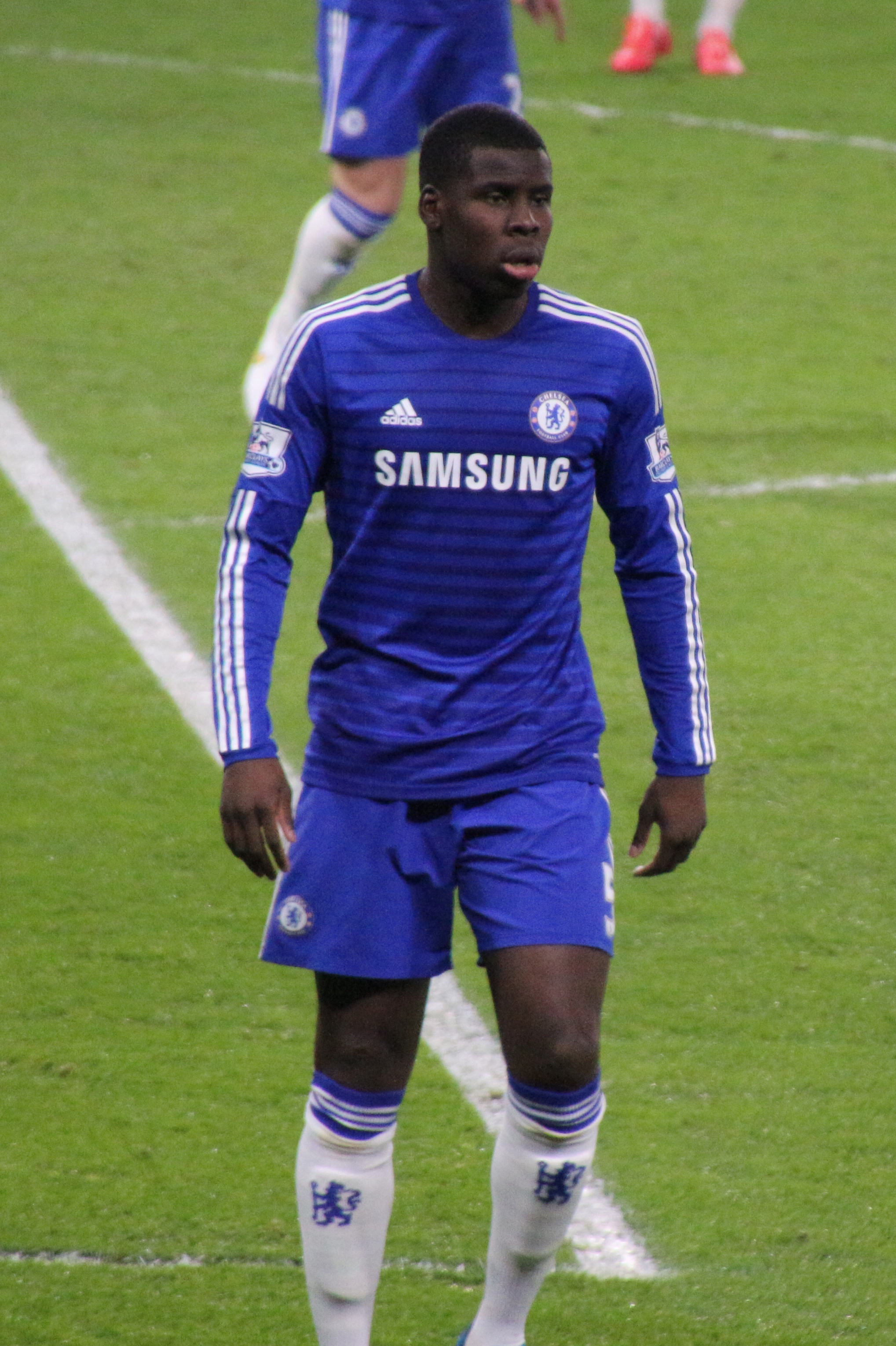 Chelsea 1 Everton 0